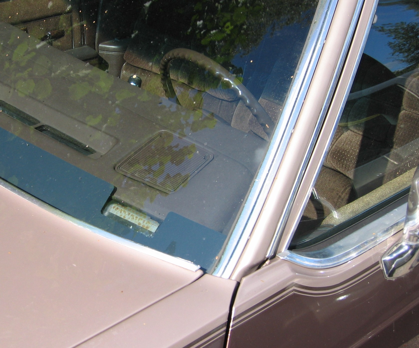 Vehicle Identification Number (VIN) behind the windshield of a GM vehicle.